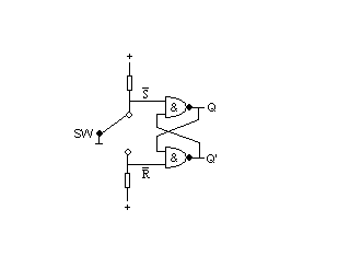 Contact Bounce Eliminator